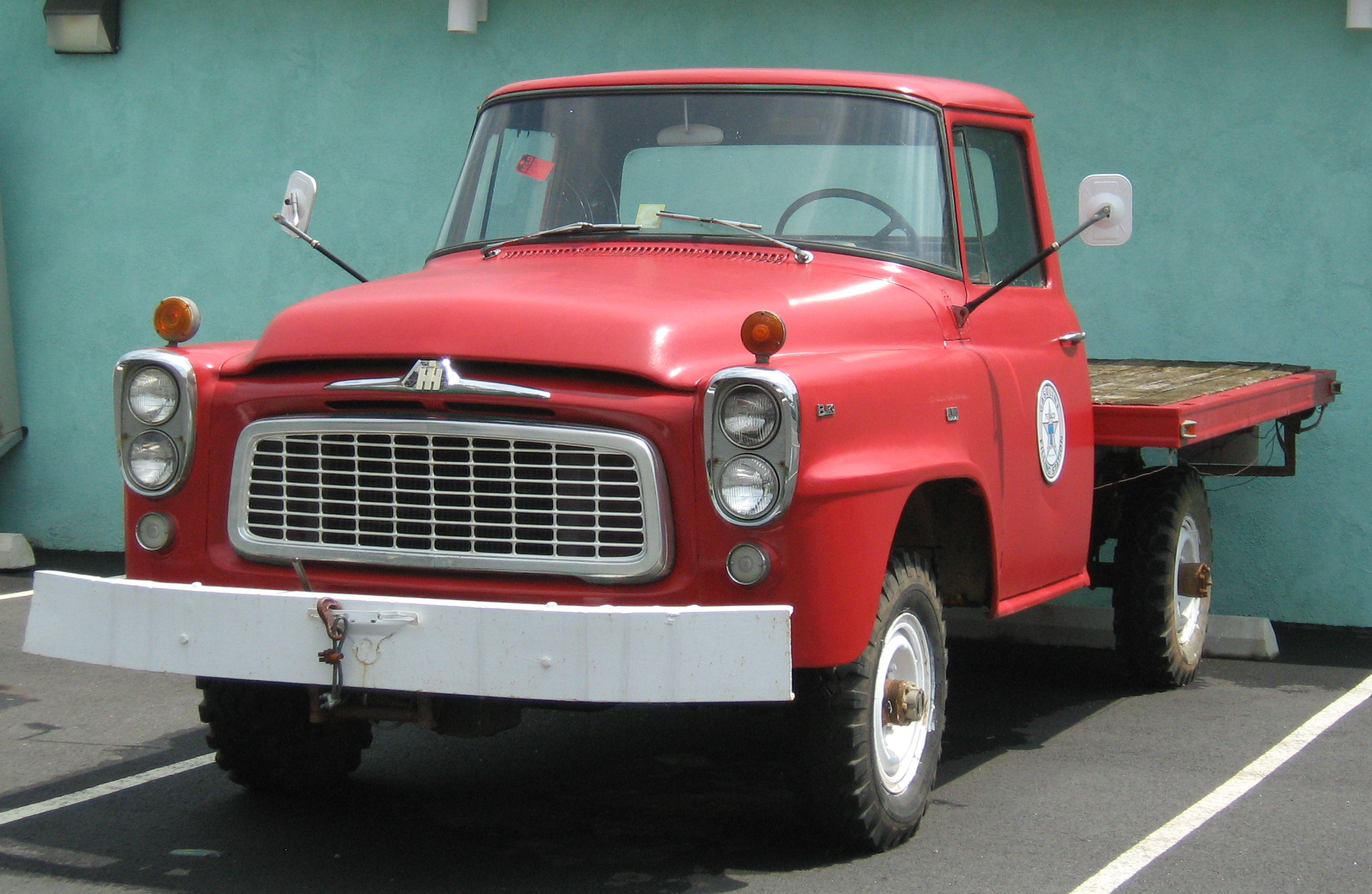 1959 International B-120 3/4 ton flatbed truck finished in red.